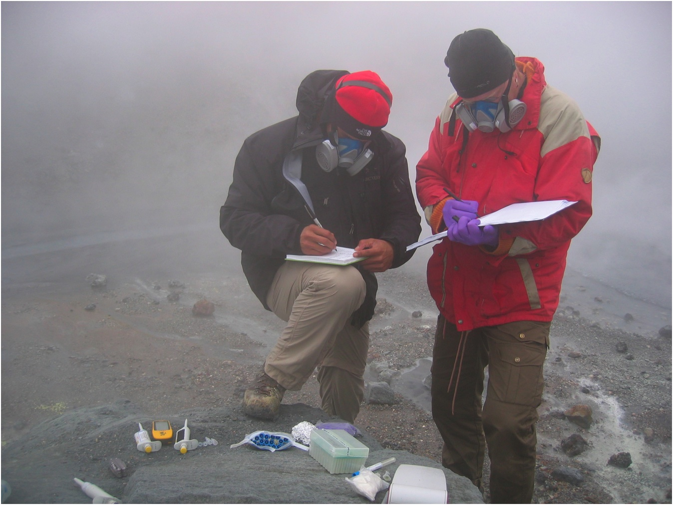 Dr Jake Maule and Dr Jan Toporski use LOCAD-PTS (bottom of image) in the crater of Mutnovsky Volcano in Kamchatka, far east Russia. These tests were performed as part of a joint Russian-NASA Astrobiology Institute (NAI) expedition to study microbial life in extreme environments.